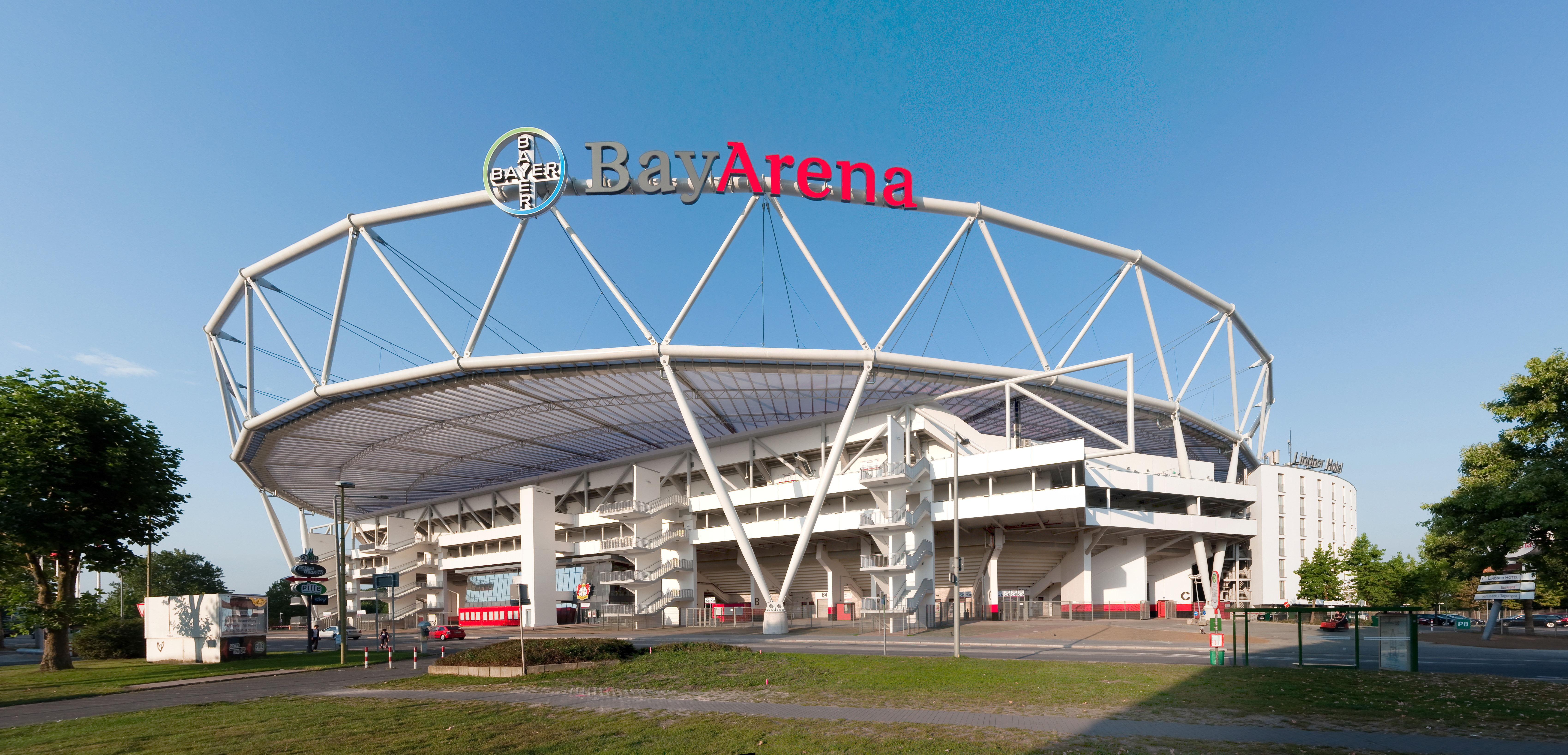 The BayArena, home stadium of Bayer 04 Leverkusen, in 2009 just after completion of the new roof